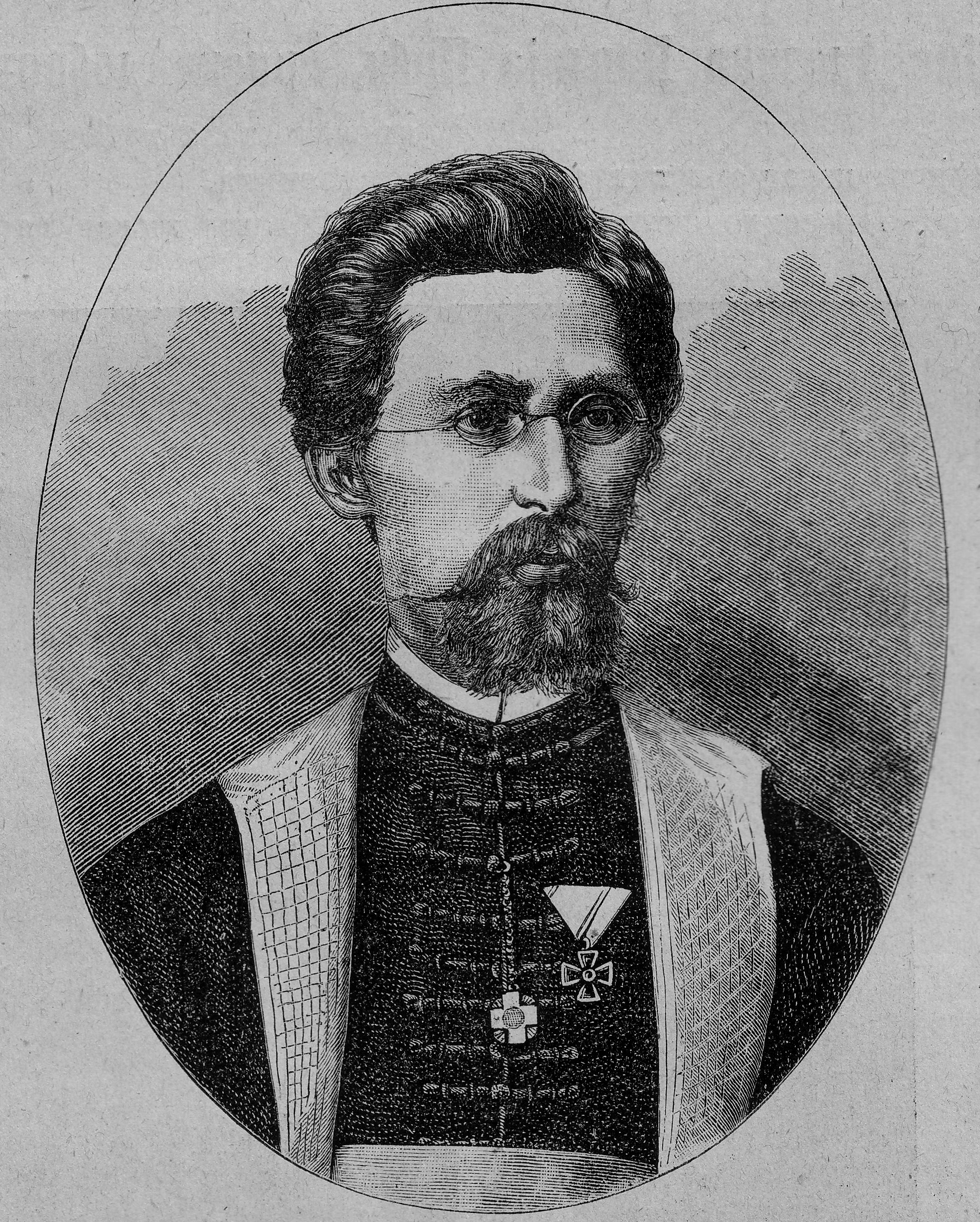 Milan Kostić (1839-1880), professor, priest, and translator. Taken from the 1881 edition of the calendar Orao. Srpski (latinica): Milan Kostić (1839-1880), profesor, sveštenik i prevodilac. Preuzeto iz izdanja kalendara Orao za 1881. godinu.